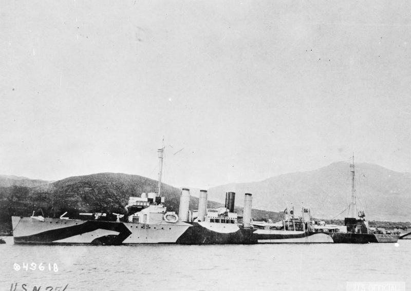 The United States Navy US destroyer CALDWELL.